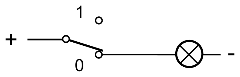 A NOT-switch